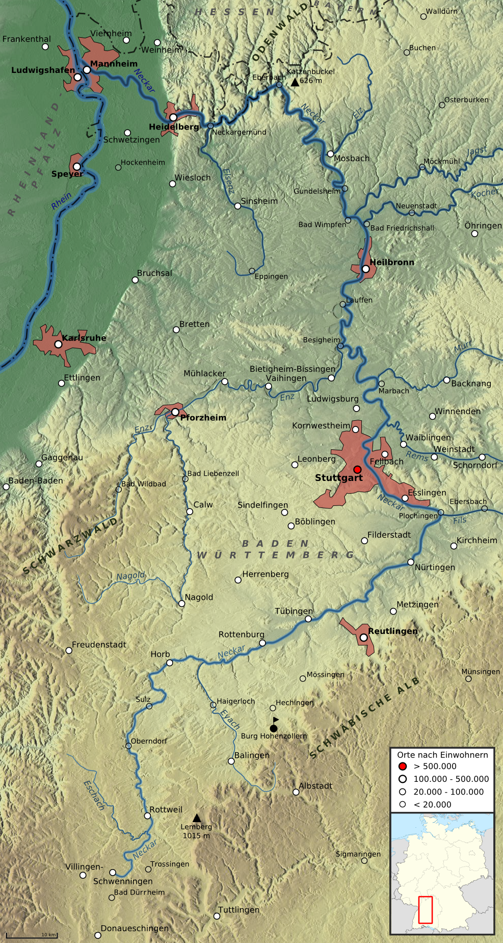 Map of the River Neckar